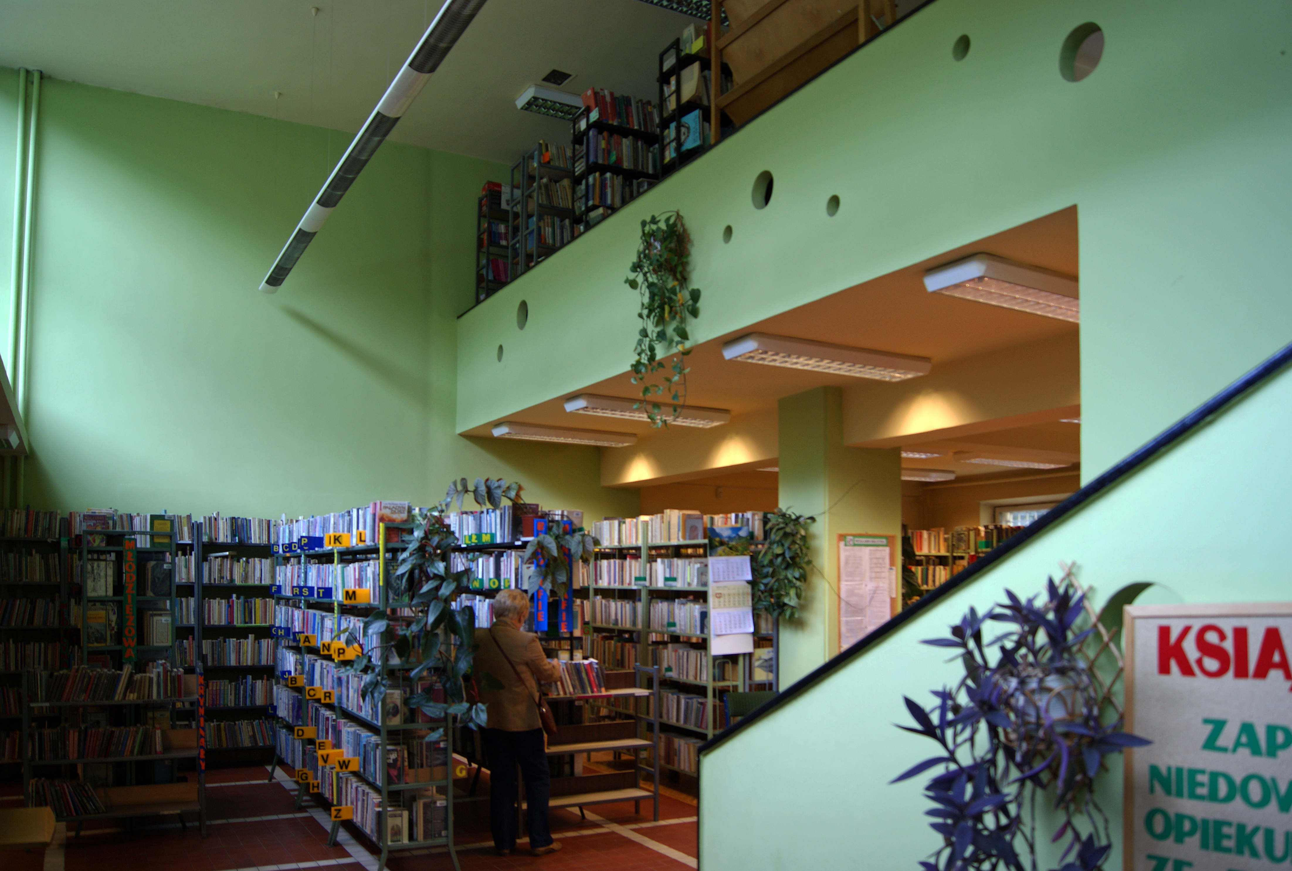 Nowa Huta Public Library (interior), 7 Zgody Estate, Nowa Huta, Krakow, Poland